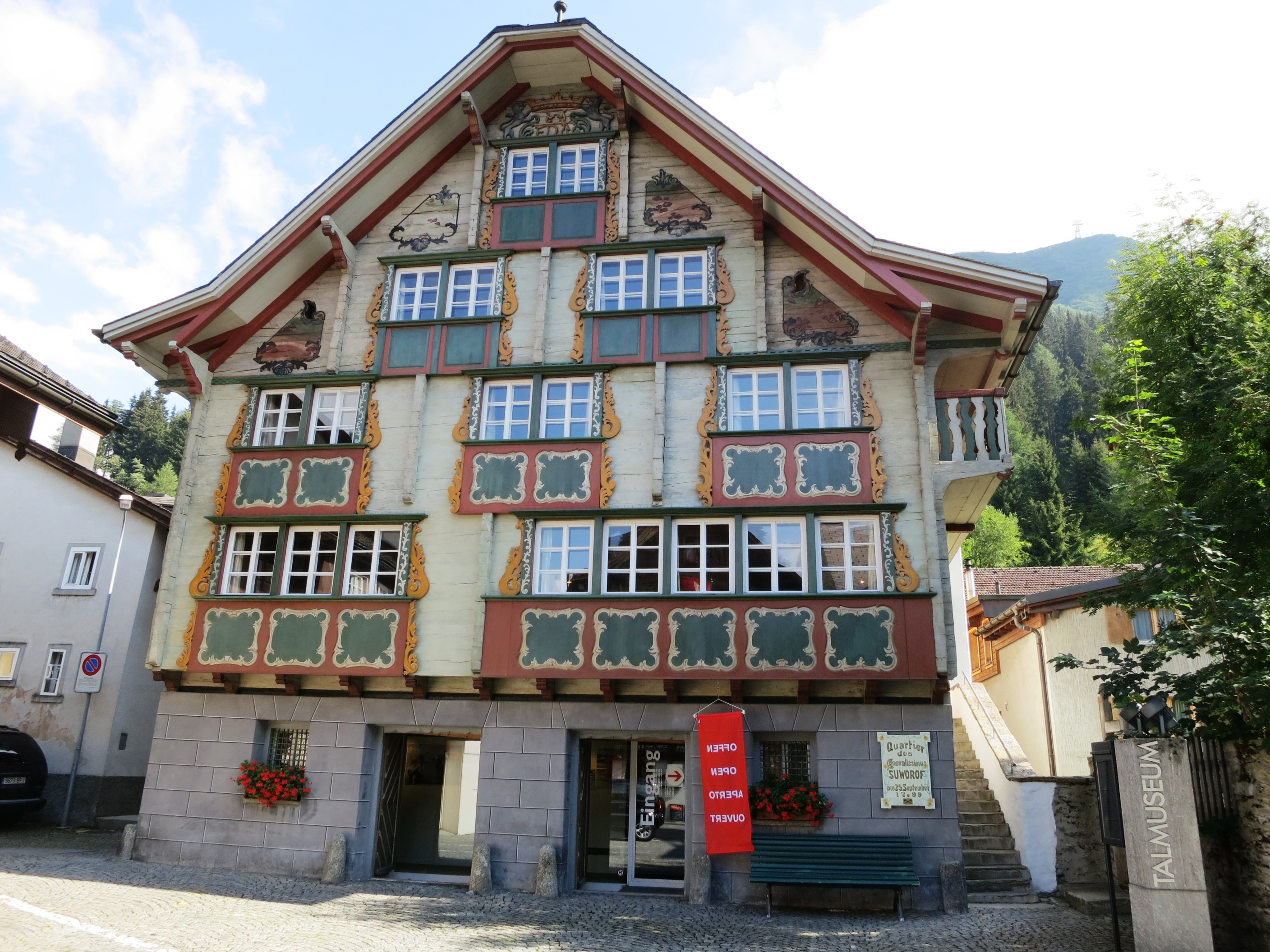 Talmuseum, Andermatt UR, Schweiz